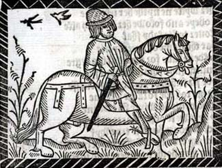 The pardoner, one of the pilgrims in Chaucer's Canterbury Tales